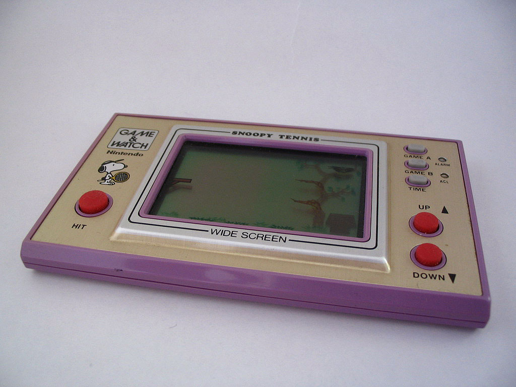 The Game & Watch Wide Screen game Snoopy Tennis (model SP-30)